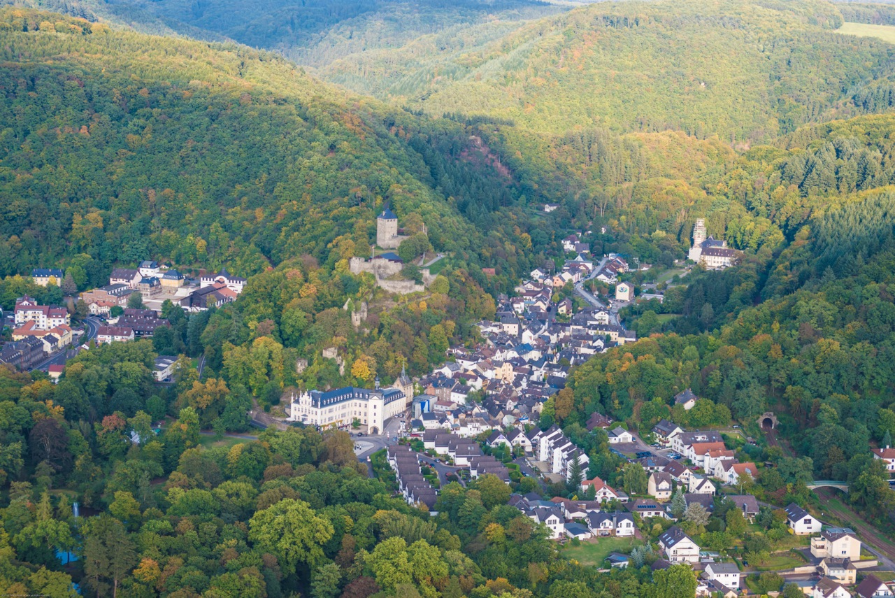 Castle Sayn, Bendorf, Rhineland-Palatinate, Germany